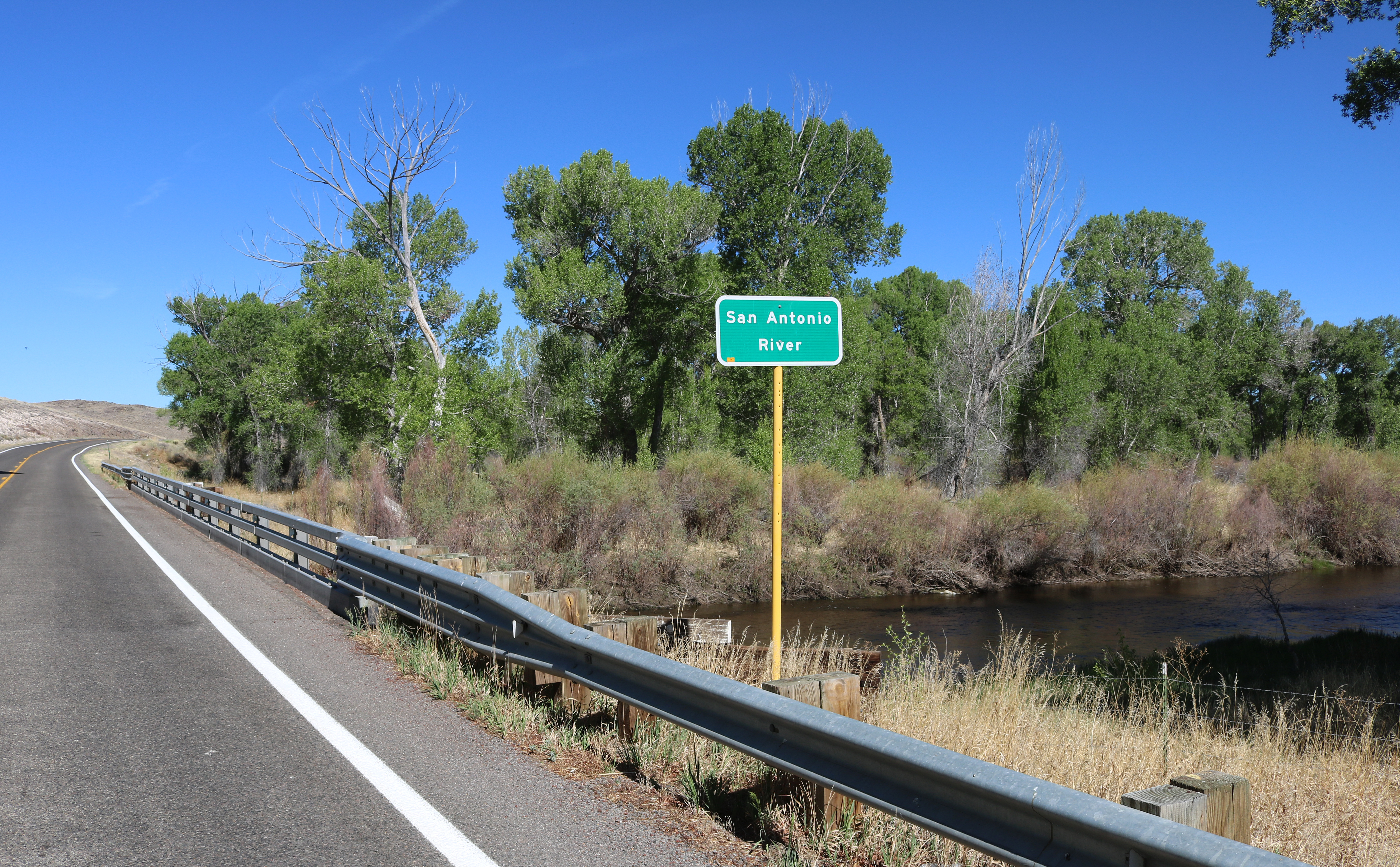 The Rio San Antonio, also called the San Antonio River, at Colorado State Highway 142 east of Manassa, Colorado in Conejos County. The view is towards the west.